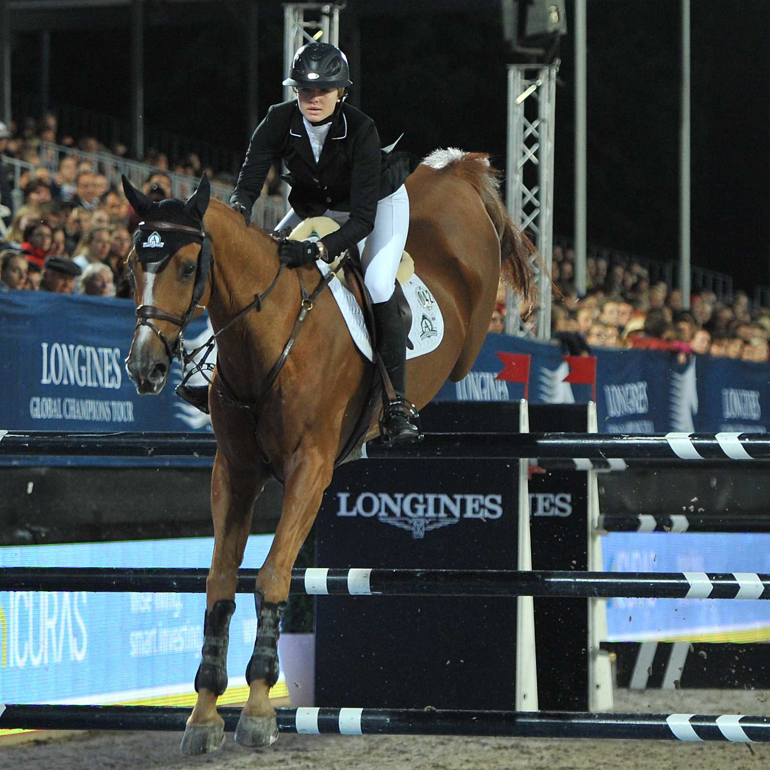 Vienna Masters am 21. September 2013 Longines Global Champions Tour Tiffany Foster (CAN) auf Southwind VDL